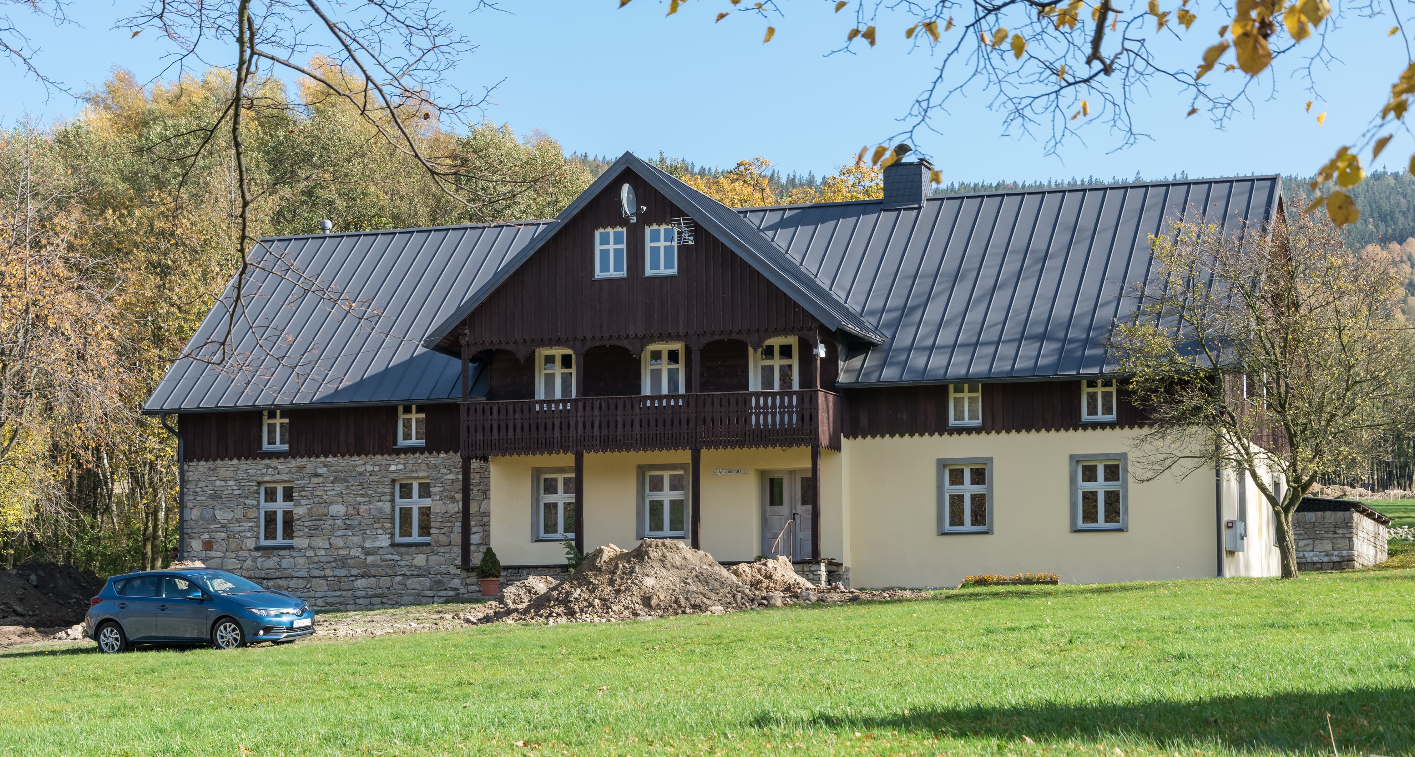 House No. 22 in Stara Morawa